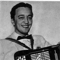 Swedish accordionist Sölve Strand